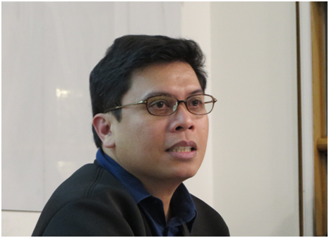 Patrick Flores delivering a lecture in SOAS London, 2015